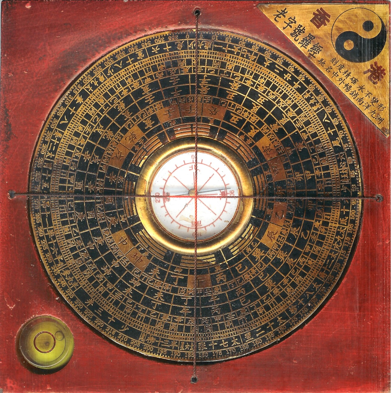 Chinese compass for for fortune telling